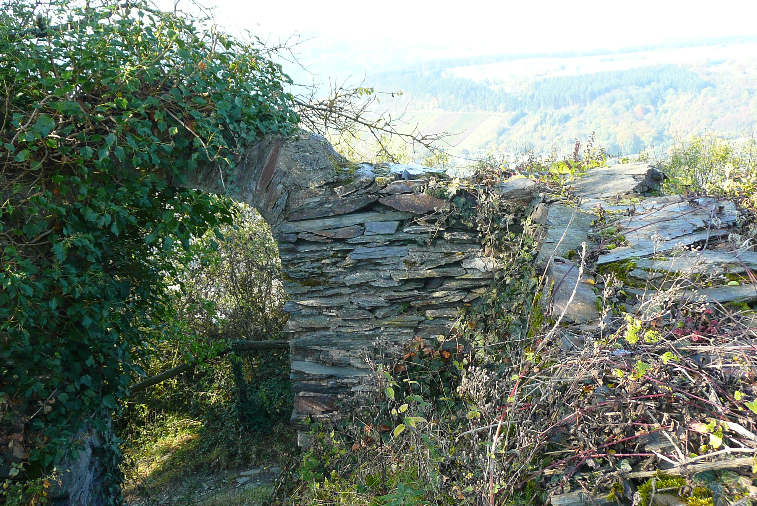 Ruins of the Starkenburg (Moselle)